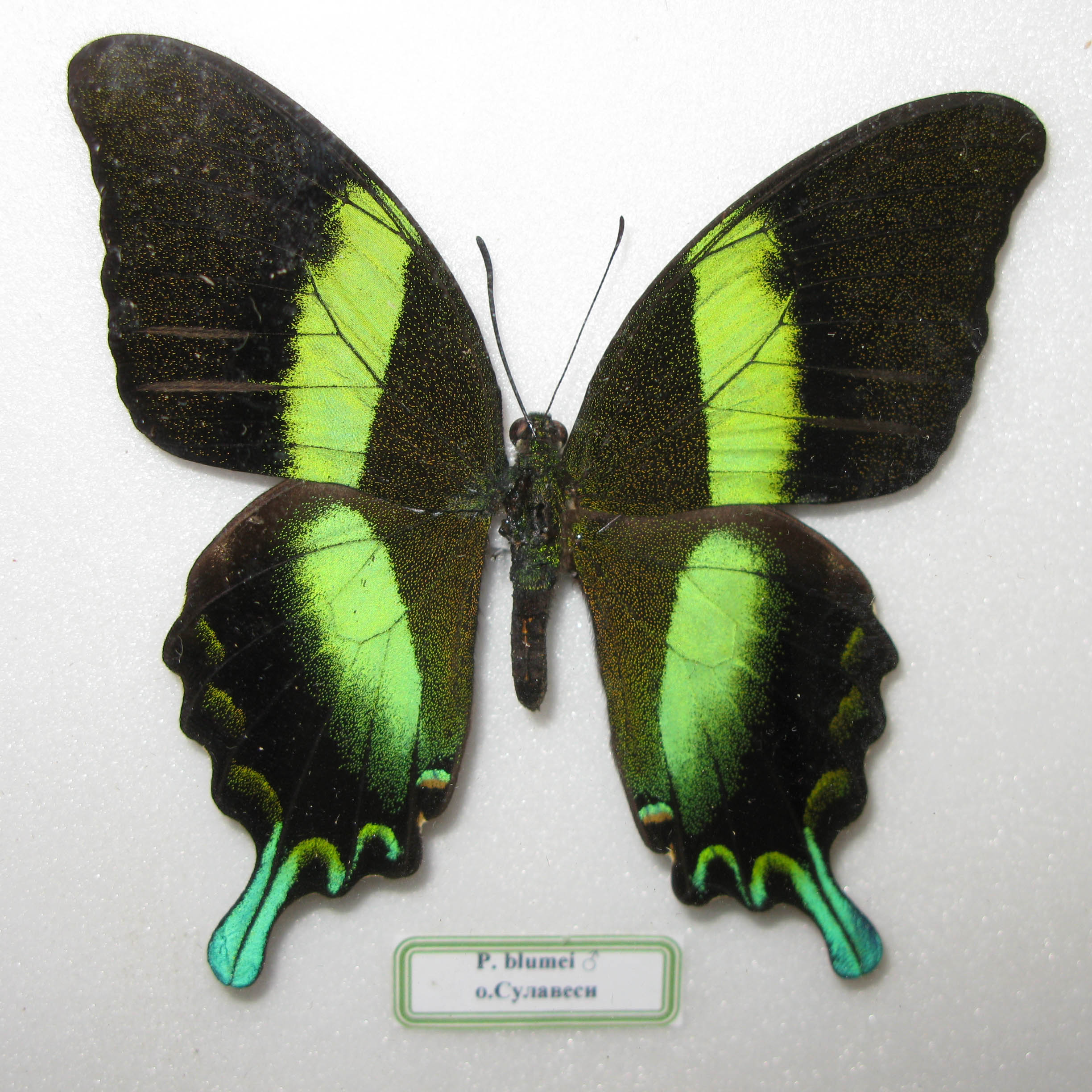 papilio blumei (male)